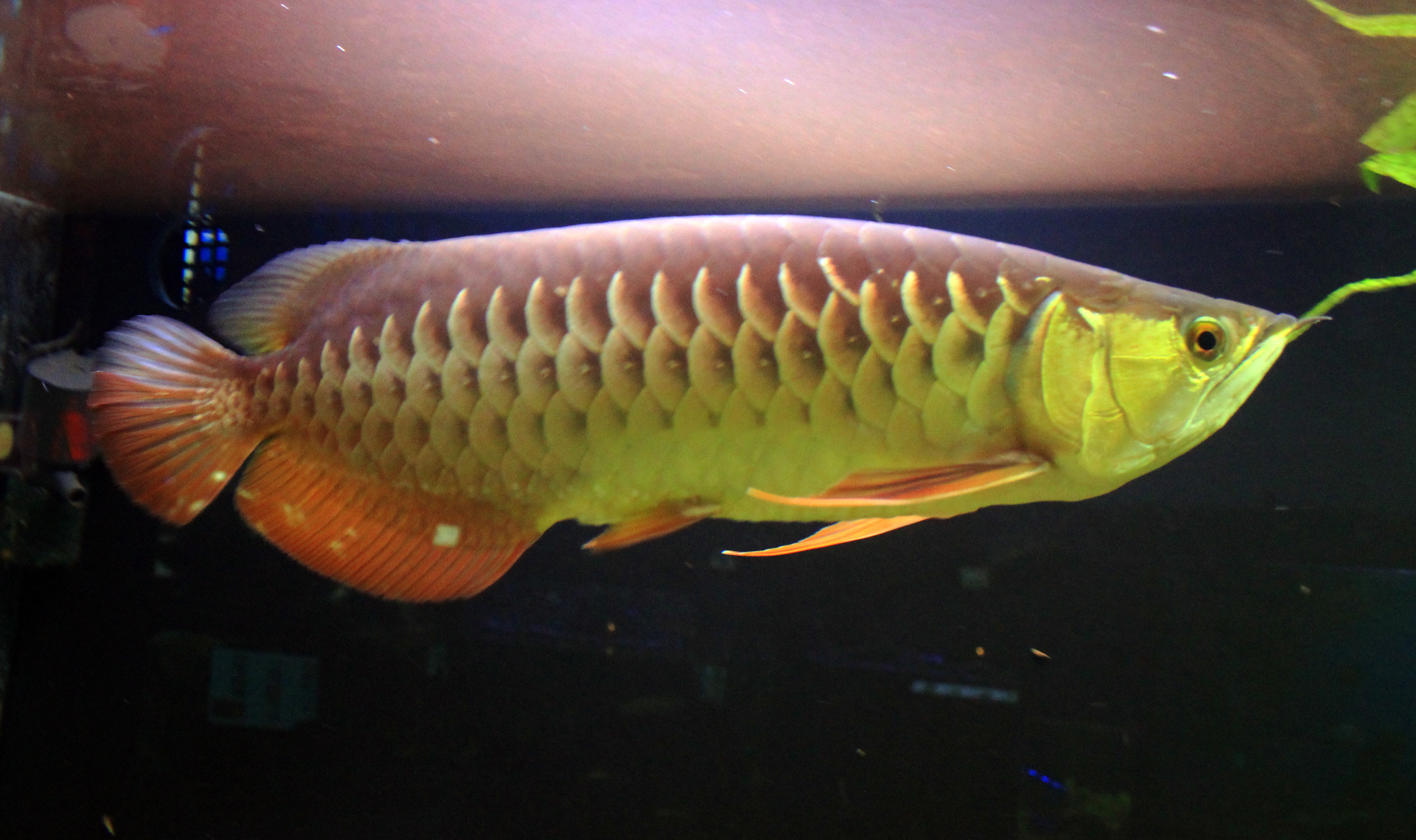 Fish Asian arowana Scleropages formosus in Prague sea aquarium, Czech Republic